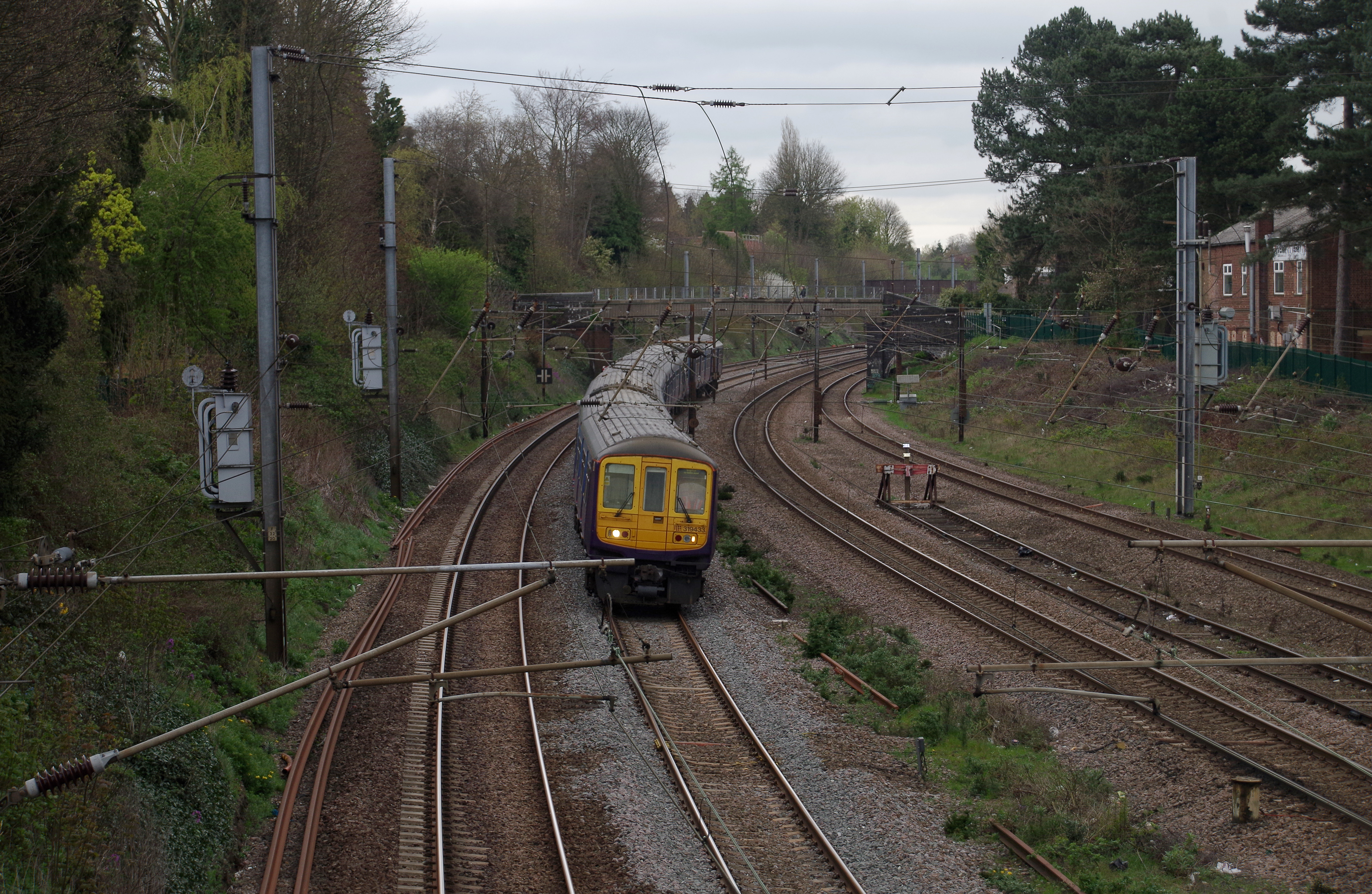 First Capital Connect class 319 EMU 319433 approaches St Albans City on the fast lines, operating a southbound Thameslink service.